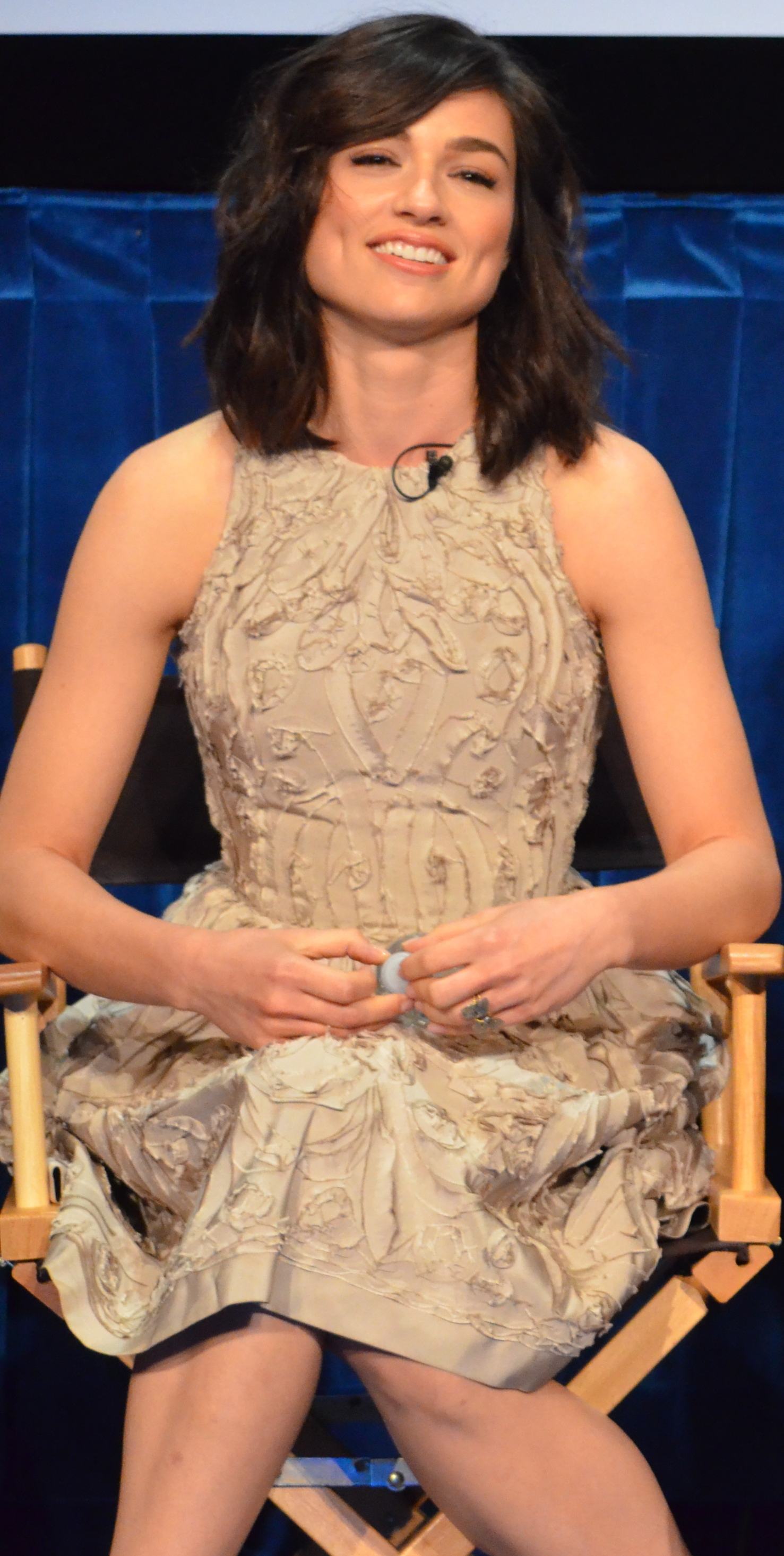 Crystal Reed & Dylan O'Brien & Tyler Posey On Stage @ Paley: Teen Wolf 2012.